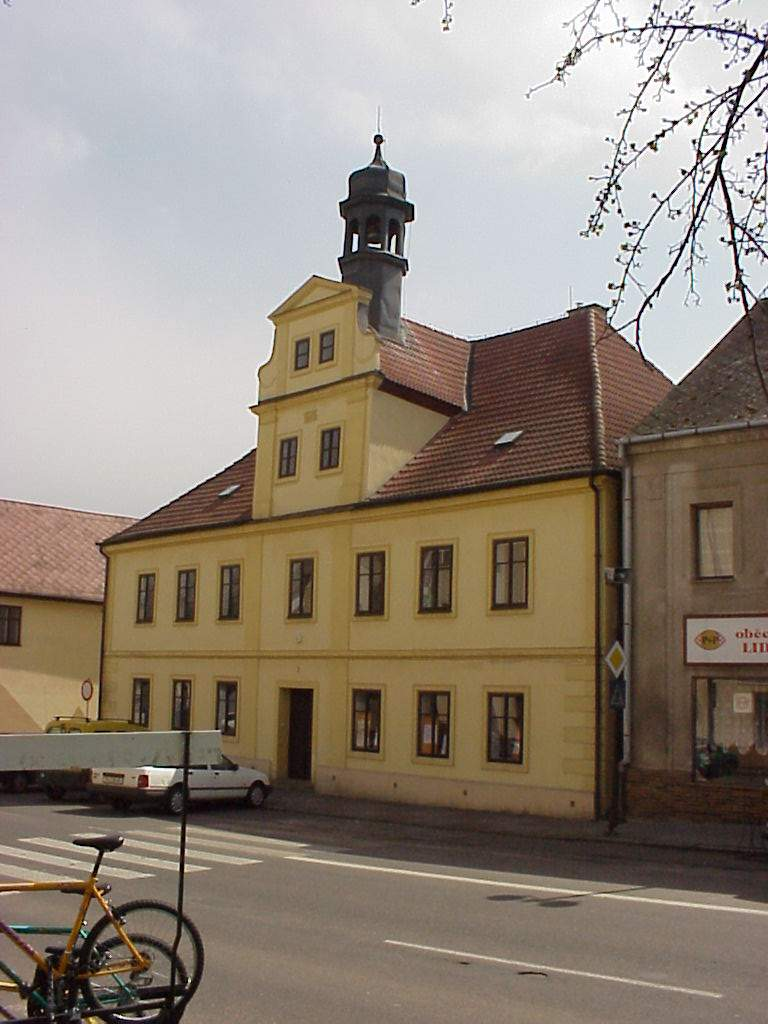 town hall in Chabařovice